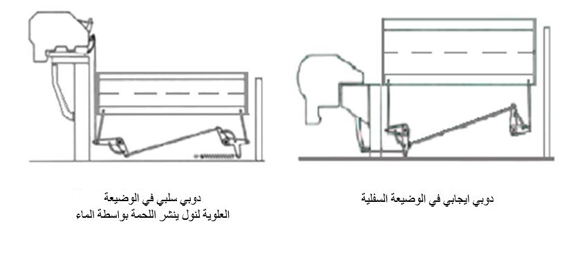 Upper and downer Dobby